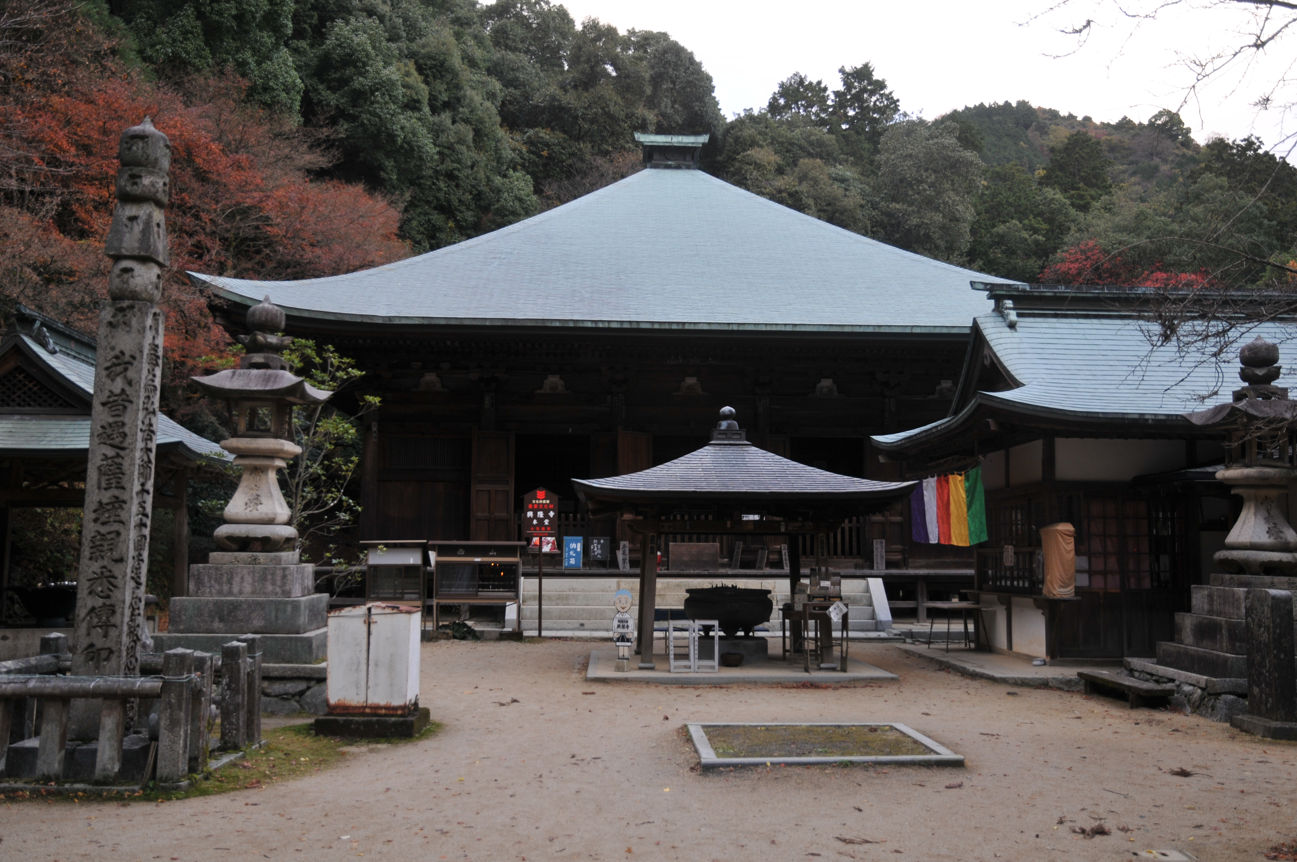 Hondō, (Main hall, Japan's national important cultural property), Nishiyama Kōryū-ji temple, Ehime Pref., Japan